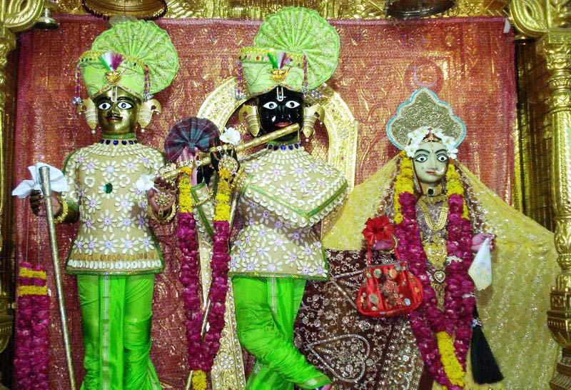 Image of Gopinathji Maharaj at Gadhada (Swaminarayan Mandir)